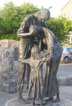 Original photograph taken by me in June 2006